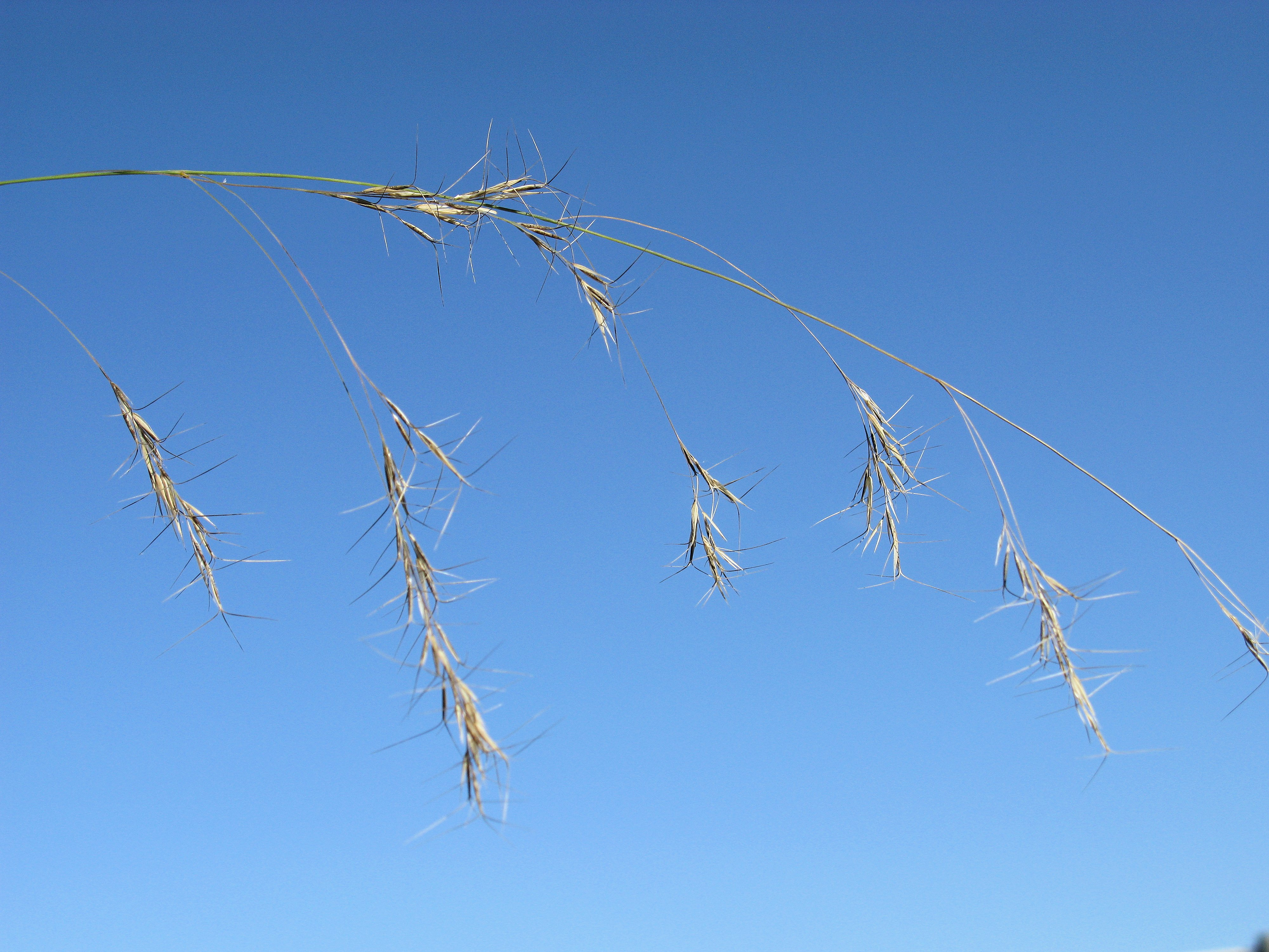 Flowerheads are narrow contracted or loose and open panicles; to 30 cm long and usually drooping. Spikelets are 1-flowered with the glumes equal to or longer than lemma length. Lemma is brown or purple, with a 3-branched awn.